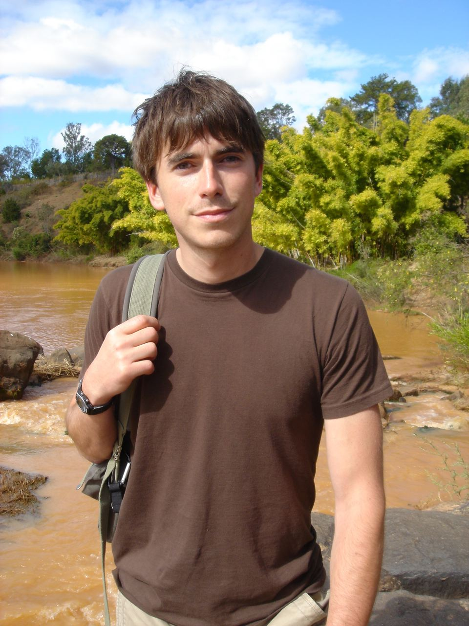 MADAGASCAR: Tropic of Capricorn presenter Simon Reeve on his journey around the southern border of the tropics.